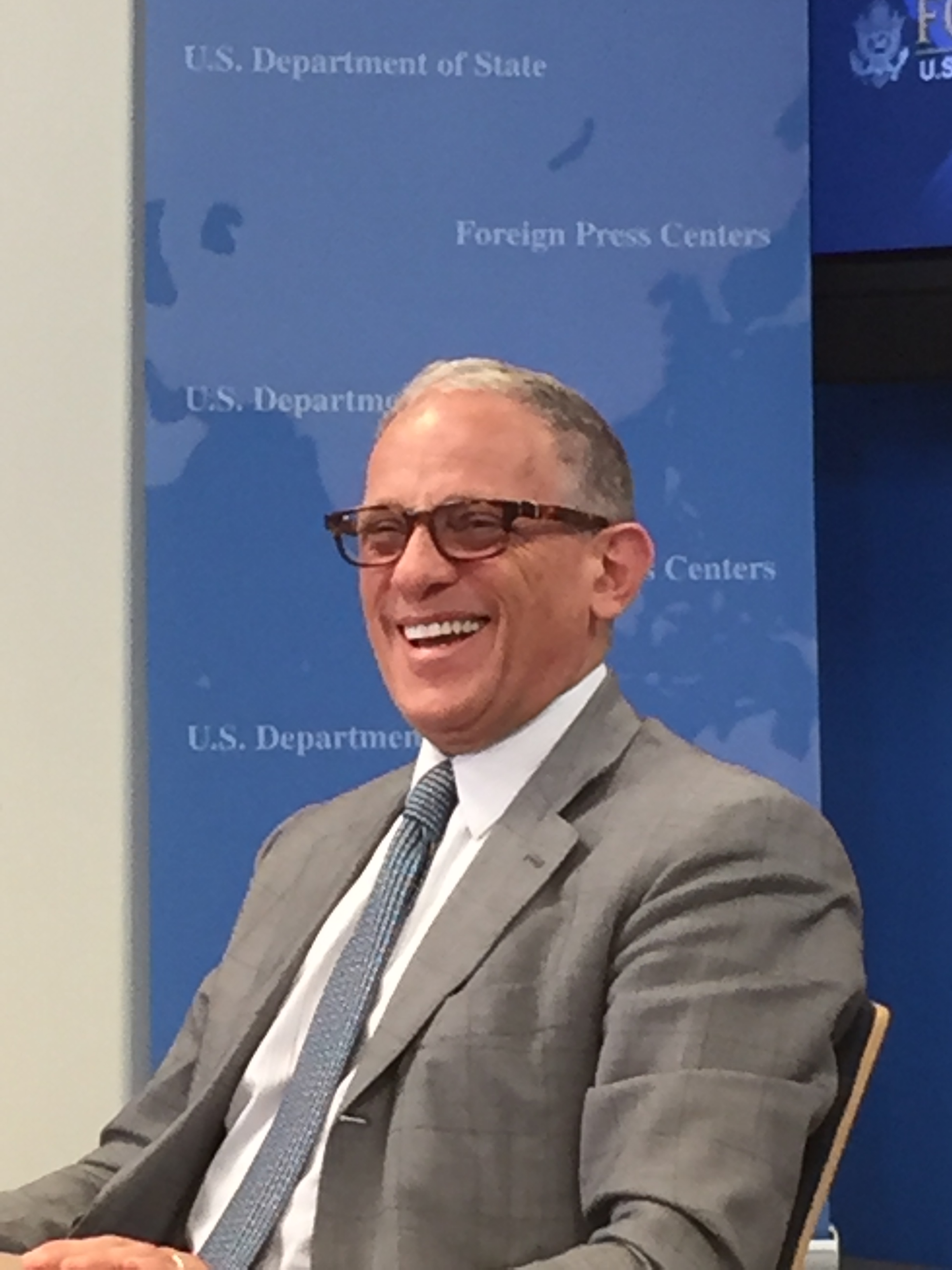 A photo of EXIM Chairman Fred Hochberg speaking to foreign journalists at the Foreign Press Center at the U.S. Mission to the United Nations.